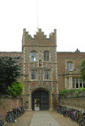 Jesus College Gatehouse and the “Chimney” (Cambridge)